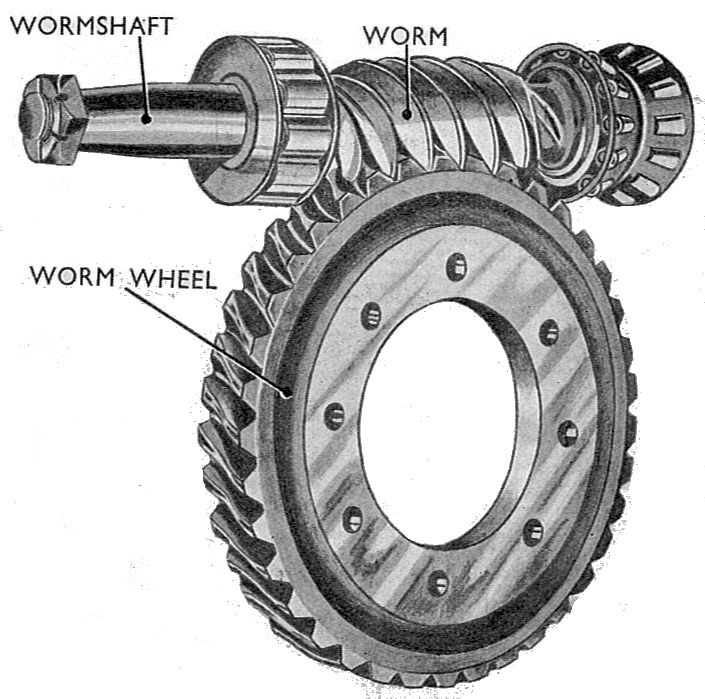 Worm final drive (Manual of Driving and Maintenance).jpg